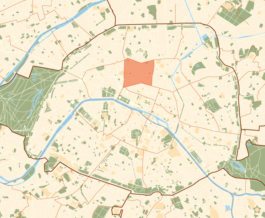 Plan by ThePromenader (own work)